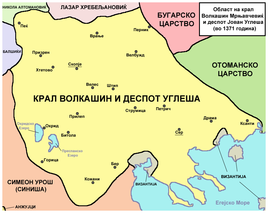 Domain of King Vukašin Mrnjavčević and Despot Jovan Uglješa (in 1371).